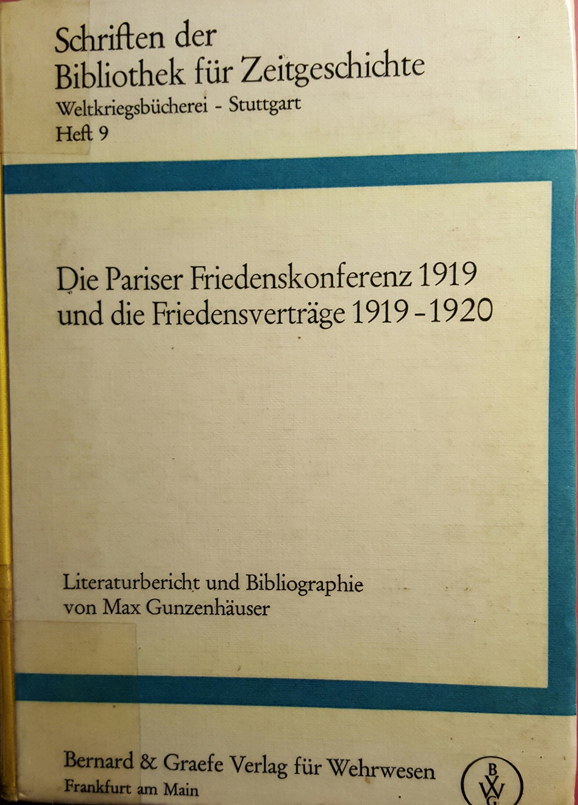 Max Gunzenhäuser. Die Pariser Friedenskonferenz 1919 und die Friedensverträge 1919—1920. Literaturbericht und Bibliographie : [de]. — Frankfurt/M. : Bernard & Graefe, 1970. — vii, 287 S. — (Schriften der Bibliothek für Zeitgeschichte, Stuttgart: Heft 9).